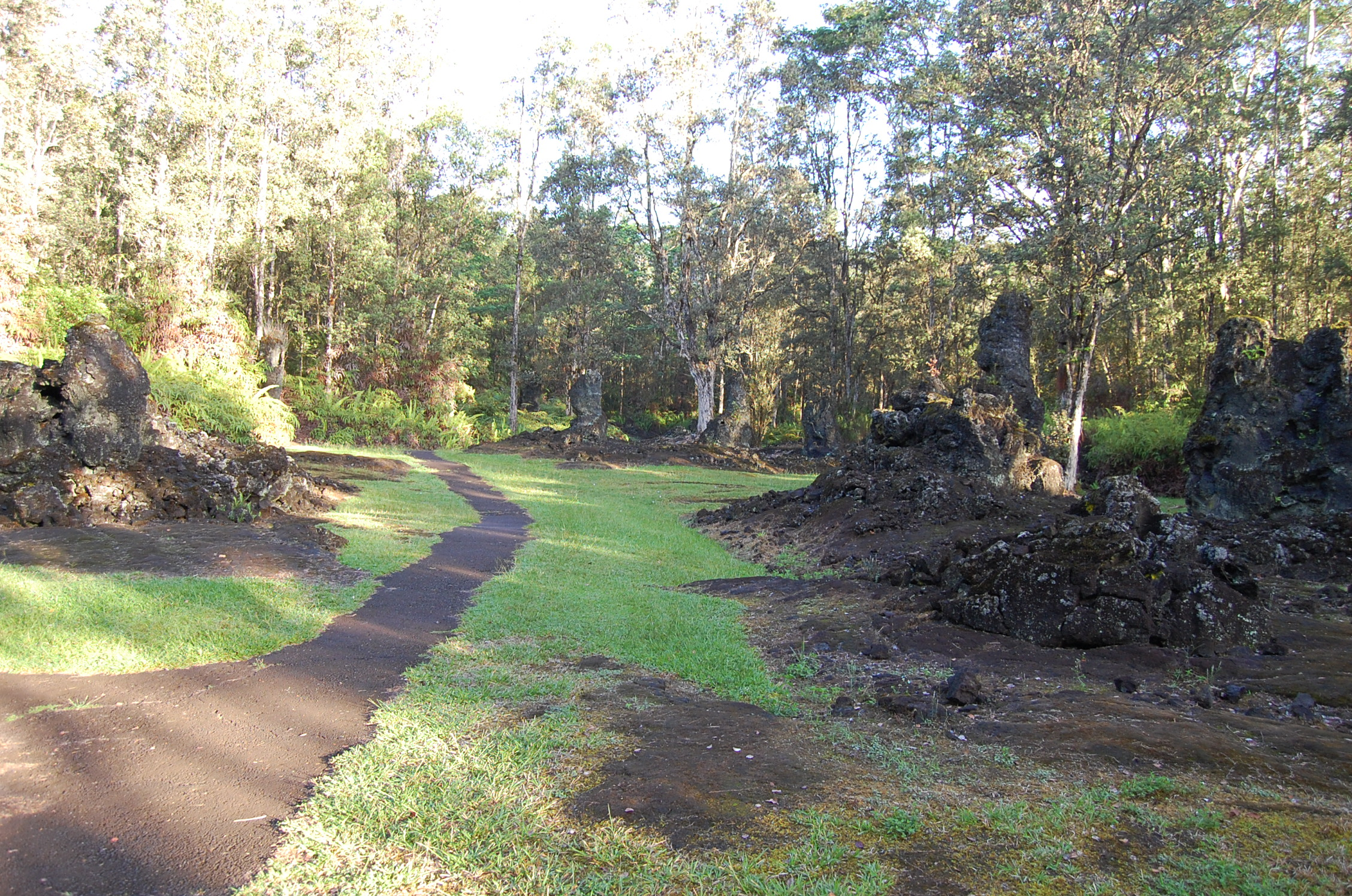 Path at Hawaii Lava Tree State Park